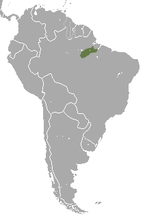 Silvery Marmoset (Mico argentatus) range